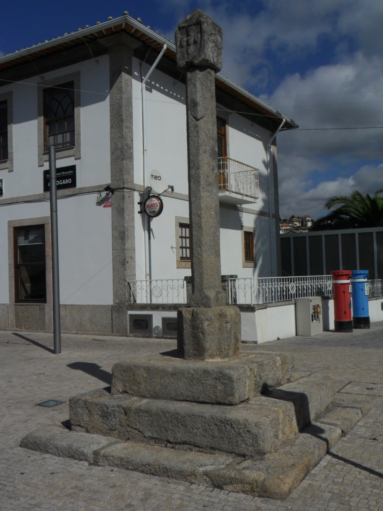 This file was uploaded for Wiki Loves Monuments in Portugal with the unique identifier 73764.